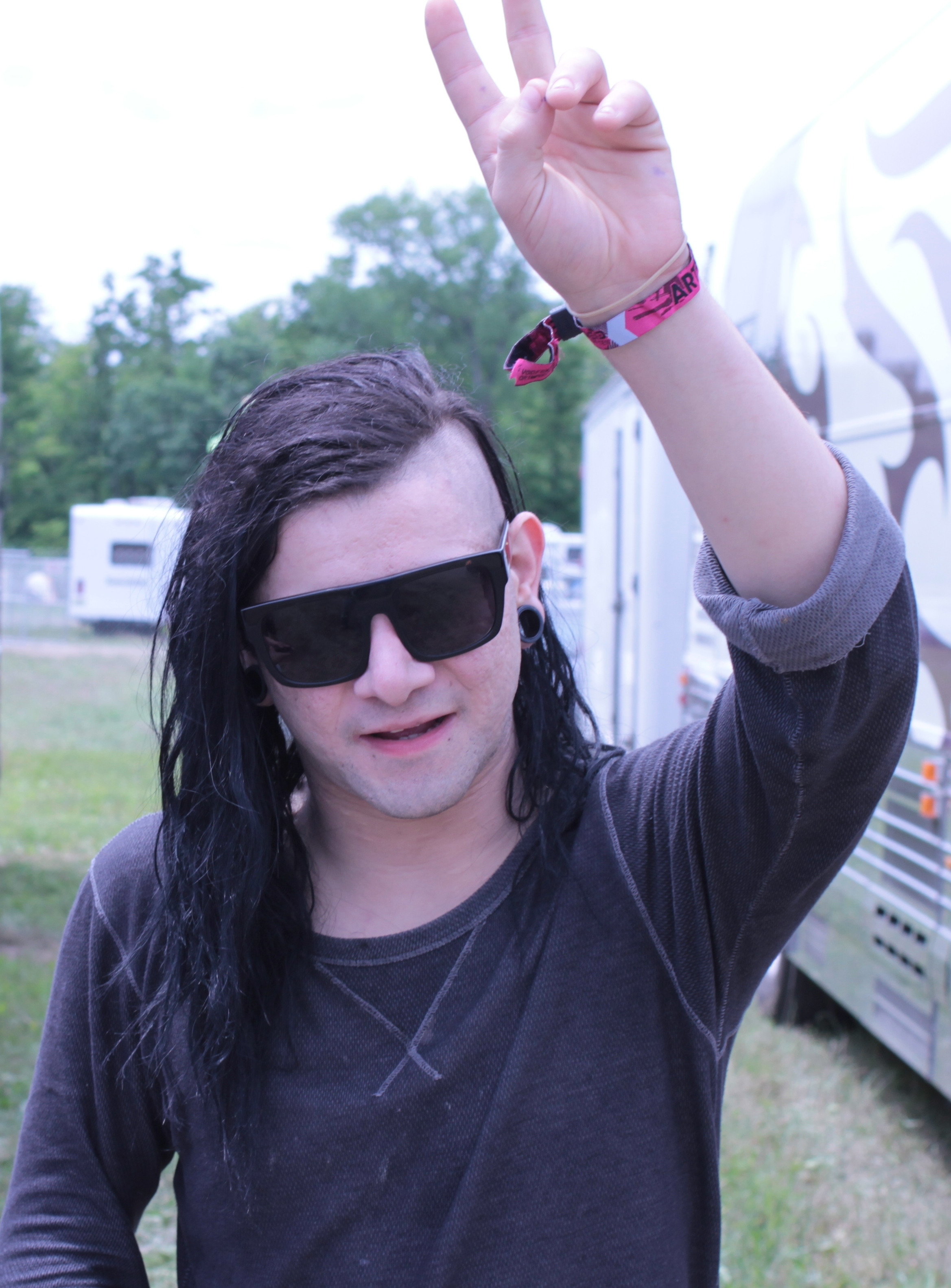 Photo Credit: Michael Nusbaum